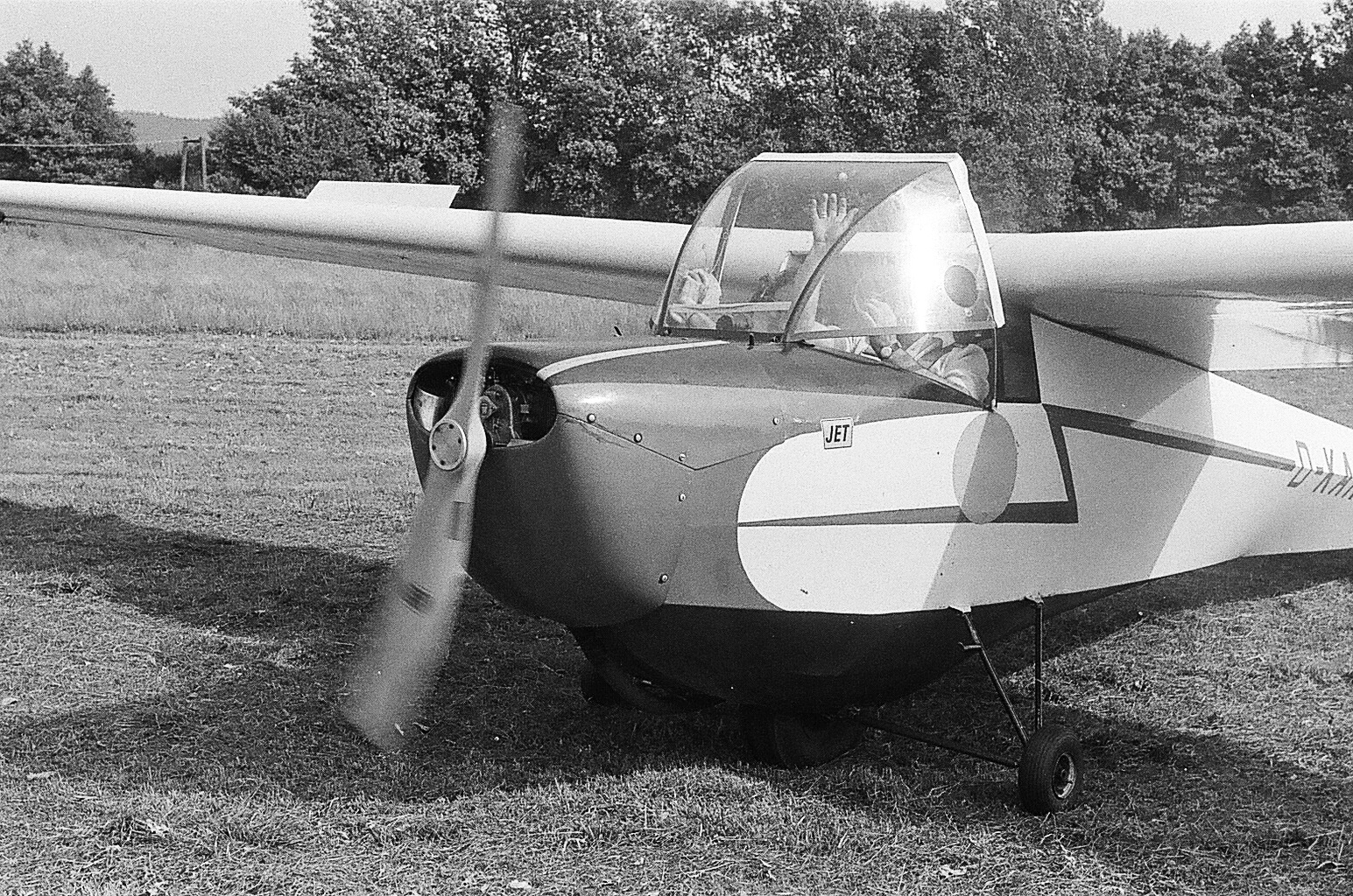 Scheibe SF 25 A motorglider D-KANY at Anspach airfield (EDFA), owned by LSC Bad Homburg/Usingen. Note the different wing position and landing gear when compared to all later Versions of the SF 25.